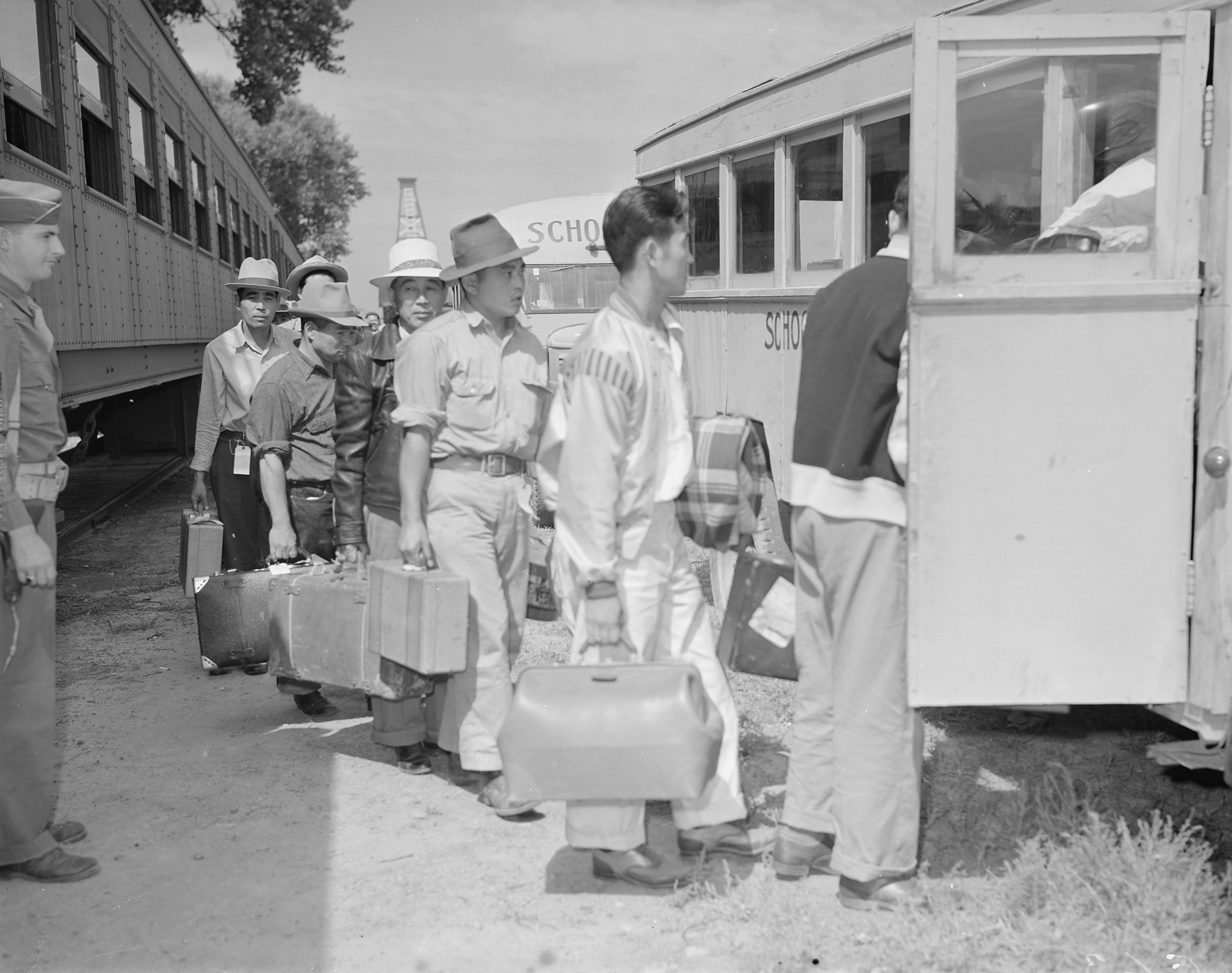 Scope and content: The full caption for this photograph reads: Granada Relocation Center, Amache, Colorado. First evacuees to arrive at the Granada railroad station boarding buses to be transported to the relocation center.